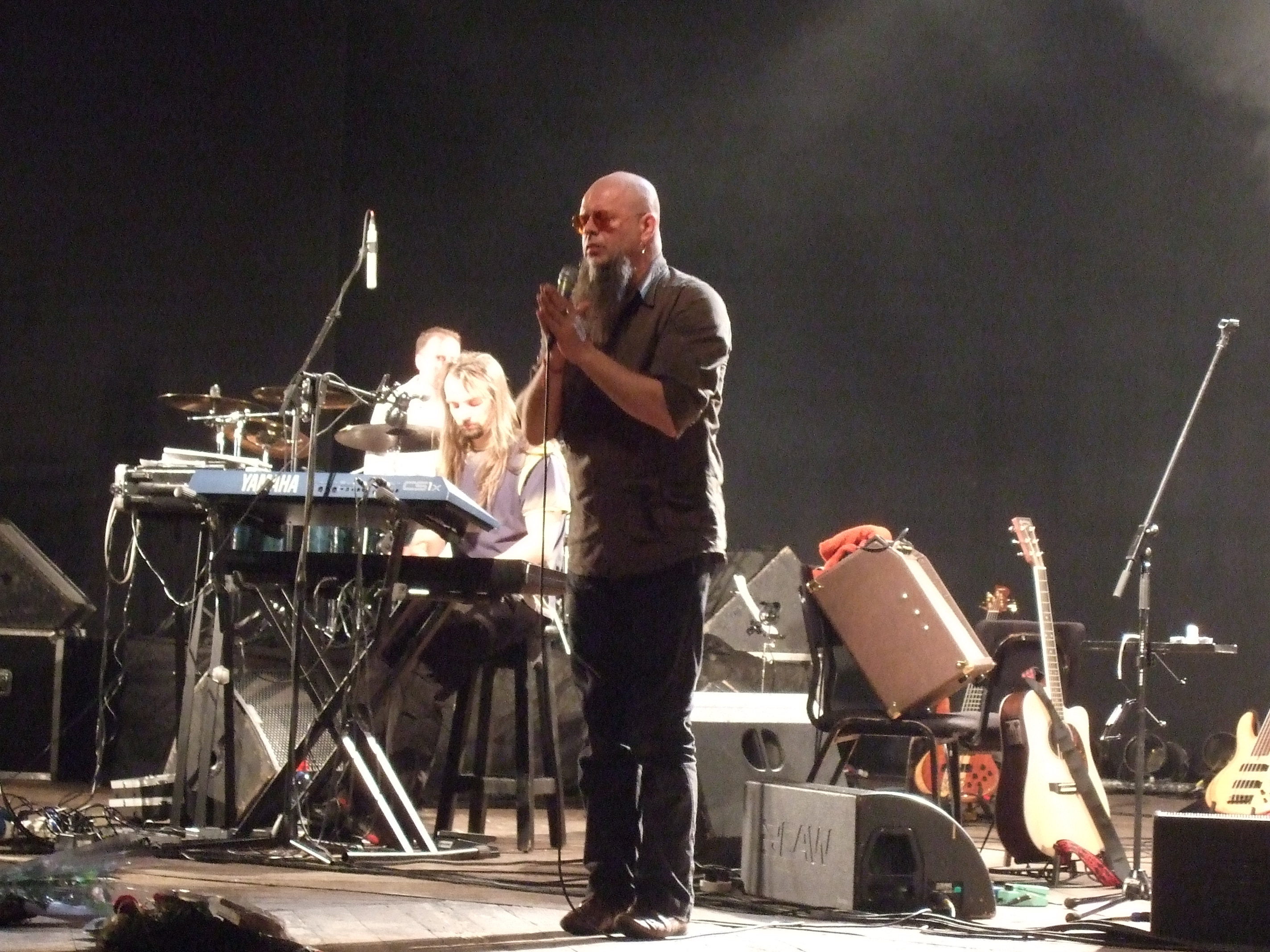 Boris Grebenshchikov, Aquarium concert, TA 2008